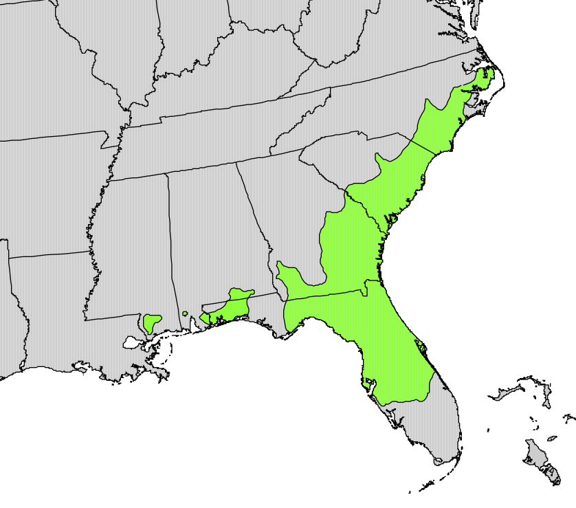 Range map of Gordonia lasianthus